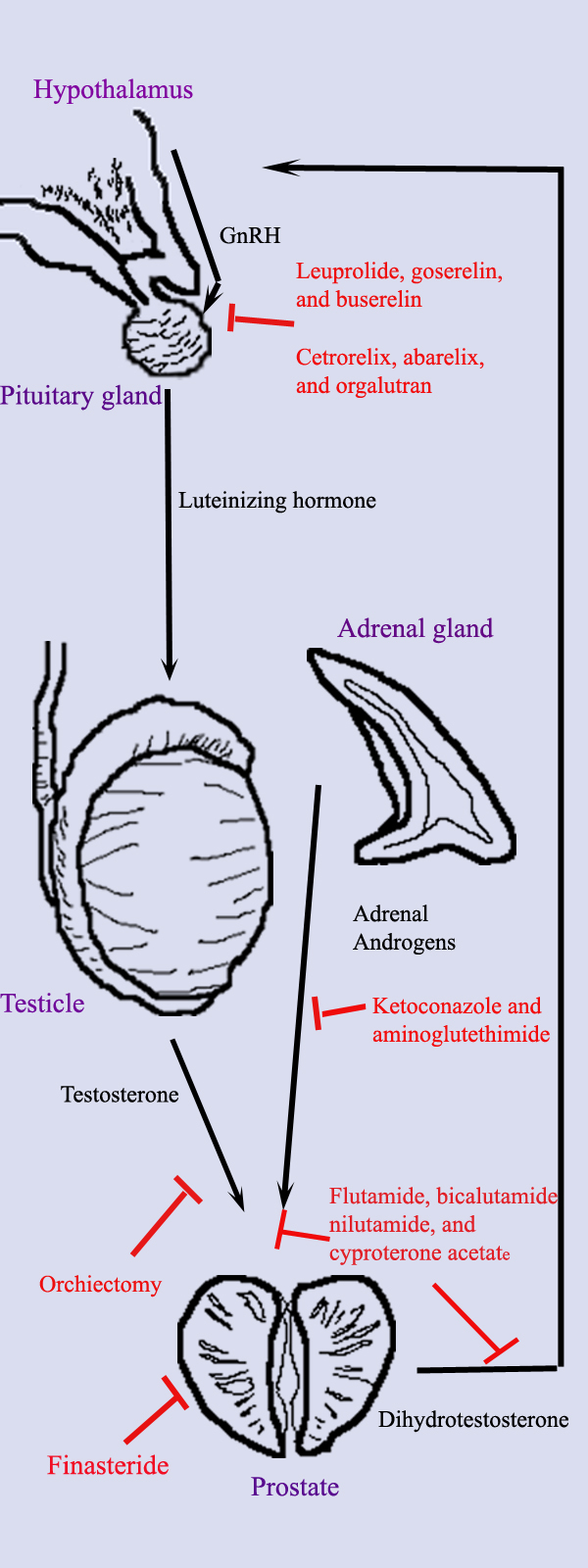 Created by me, all rights released